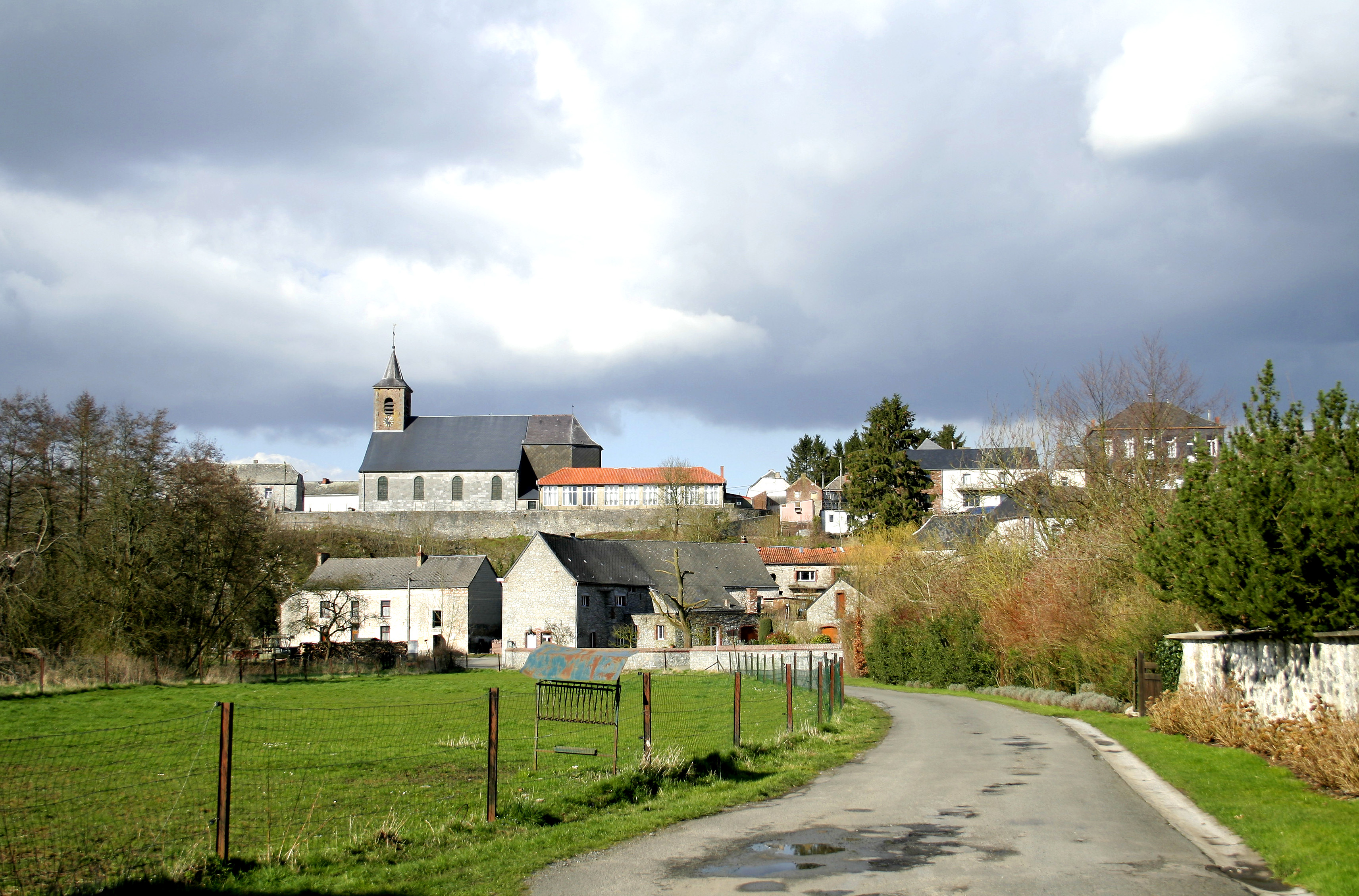 Solre-Saint-Géry, Belgium, the neighbourhood of the church.